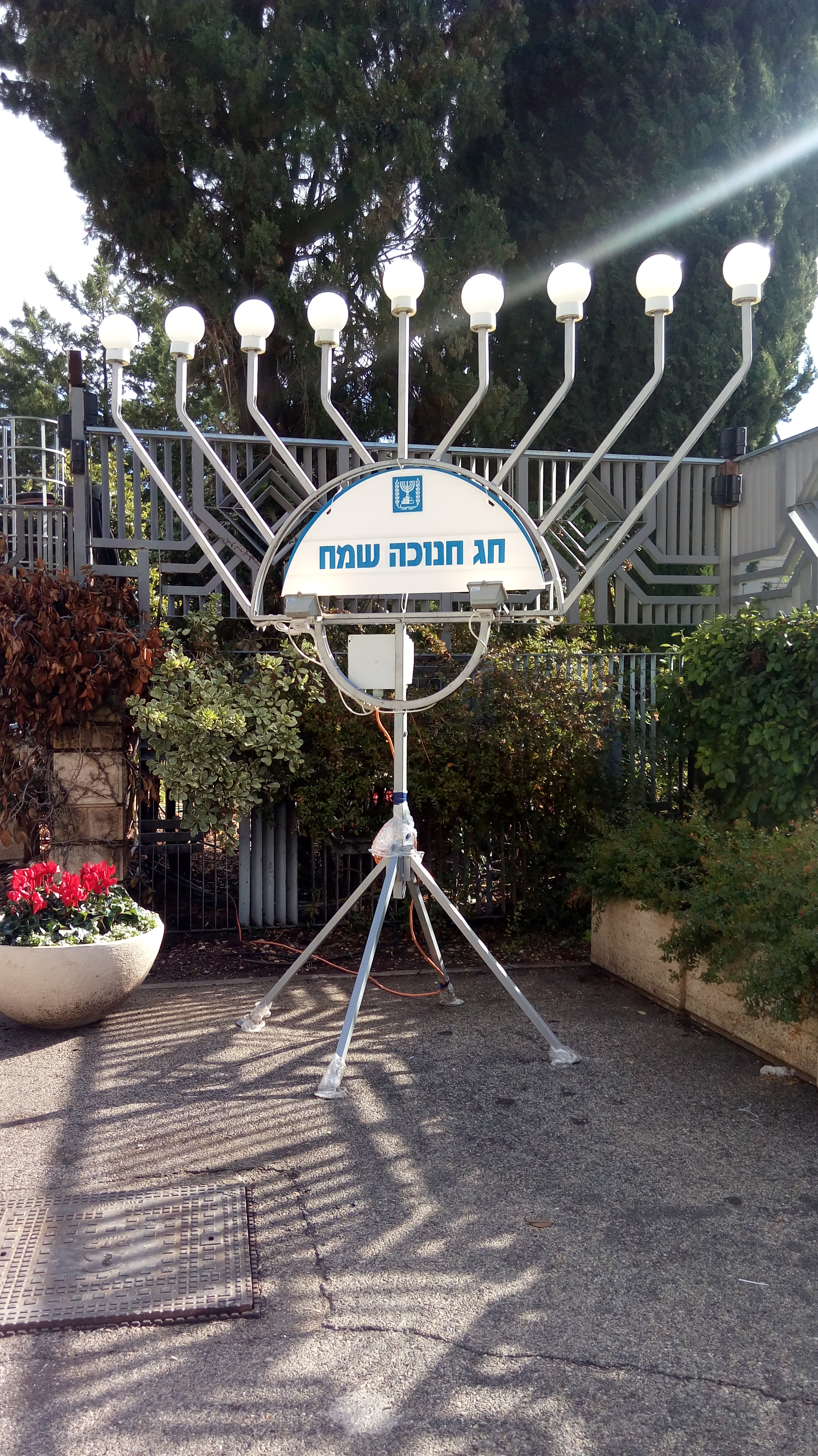 A public menorah is displayed at the entrance to Jerusalem, the president's daughter